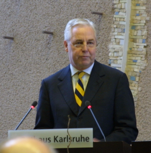 Heinz Fenrich, the major of Karlsruhe since 1998 Image taken on a commemorative event because of the 25th anniversary of the Volkszählungsurteil (see Informational self-determination)